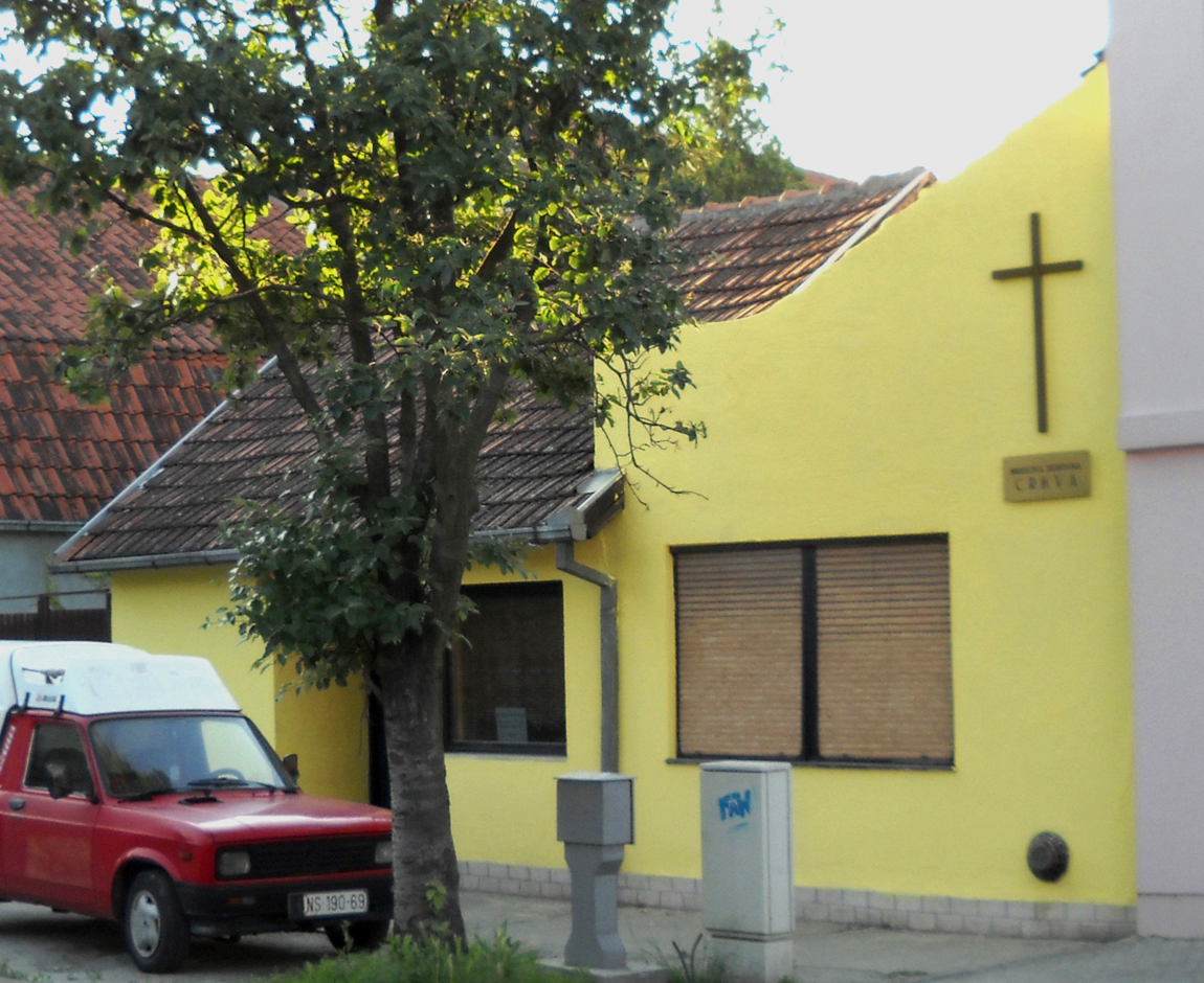 Spiritual Church of Christ in Novi Sad, Serbia. Services are performed in Serbian language.